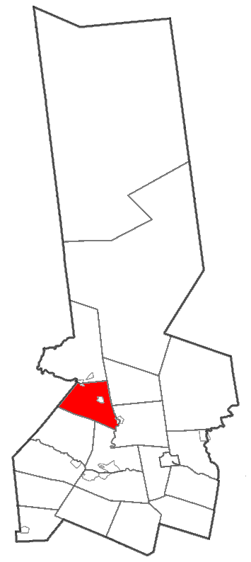 Map of Herkimer County highlighting Newport Town